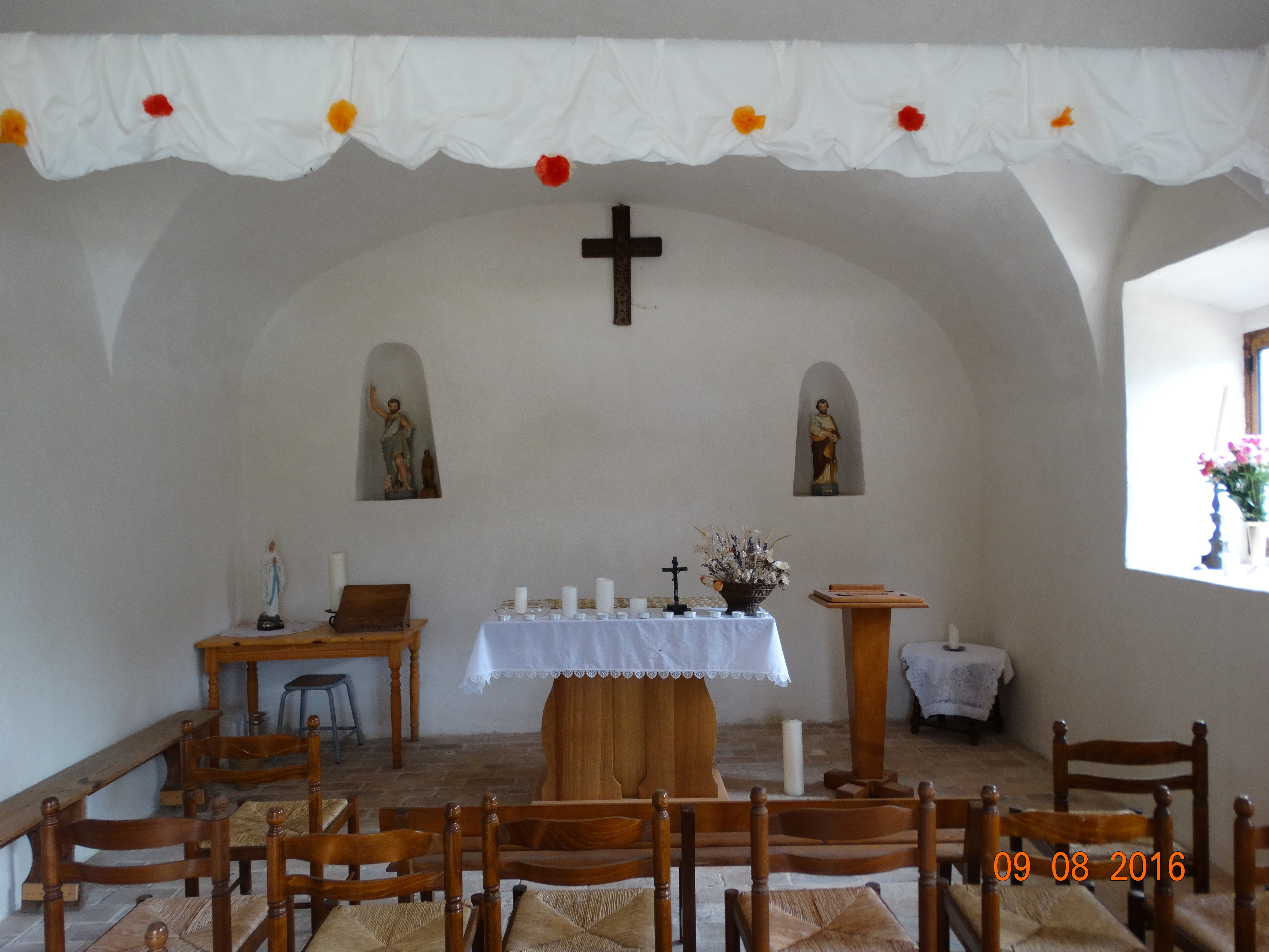 Chapelle St Barthelemy (interior)